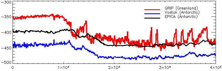 From the Vostok and EPICA (Antarctica) and GRIP (Greenland) ice cores: d-D and d-o-18, last 40kyr. Horizontal axis: time before 1950 (I think). Vertical axis: d-D (or delta-O-18 * 10). By William M. Connolley. See Temperature record. Note that d-D or d-O-18 is a proxy for temperature: more negative is colder; the period from 20 to 10 kyr shows the rise in temperature at the end of the last ice age. Note the Dansgaard-Oeschger events visible in the GRIP core but barely, if at all, in the Antarctic cores. d-D and d-O-18 tend to be "the same" ( though a factor of 8 comparison would be better than 10. Updated version of Image:Epica-vostok-40kyr.png including GRIP, from: GRIP: ftp://ftp.ncdc.noaa.gov/pub/data/paleo/icecore/greenland/summit/ngrip/isotopes/ngrip-d18o-50yr.txt (ss09sea timescale) EPICA: ftp://ftp.ncdc.noaa.gov/pub/data/paleo/icecore/antarctica/epica_domec/edc_dd.txt (EDC2 timescale) Vostok: ftp://ftp.ncdc.noaa.gov/pub/data/paleo/icecore/antarctica/vostok/deutnat.txt (GT4 timescale) Code: a=readfromfile('edc_dd1.txt',col=6,ign=1) b=readfromfile('vostok_deutnat1.txt',ign=1,col=4) c=readfromfile('grip.txt',ign=10,col=2) !p.multi=[0,1,2] ep=reform(a(5,*)) vo=reform(b(2,*)) gr=reform(c(1,*))*10 plot,a(4,*),ep,title='delta-o18 vs age',/xs,xr=[0,40000],ymarg=[2,5],yr=makerange([ep,vo,gr]),th=3 oplot,col=3,b(1,*),vo,th=3 oplot,col=2,c(0,*),gr,th=3 oplot,a(4,*),ep,th=3 add_key,/rig,['EPICA (Antarctic)','Vostok (Antarctic)','GRIP (Greenland)'],[!p.color,3,2],th=3,/top